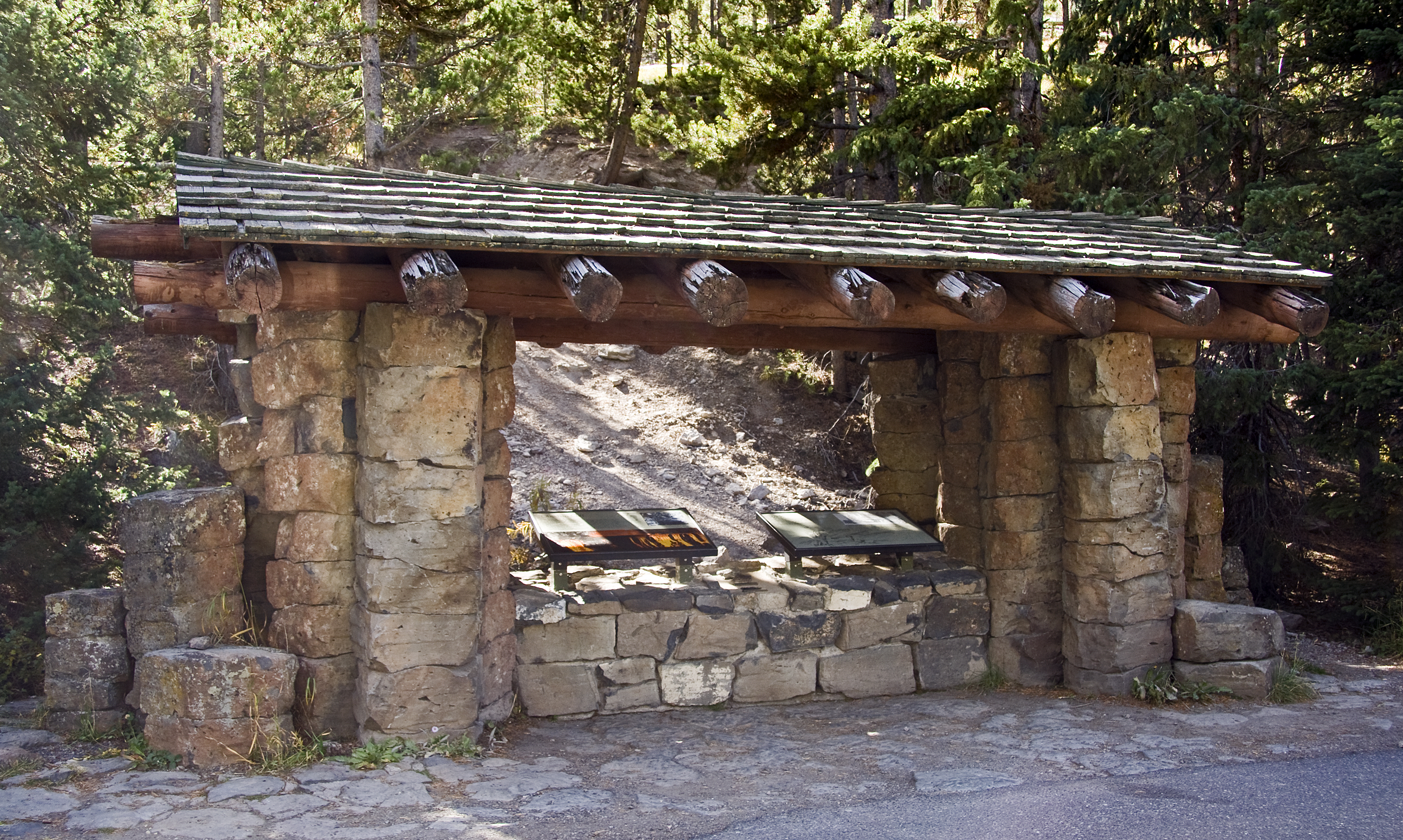 Obsidian Cliff kiosk, Yellowstone National Park, Wyoming. Listed on the National Register of Historic Places.